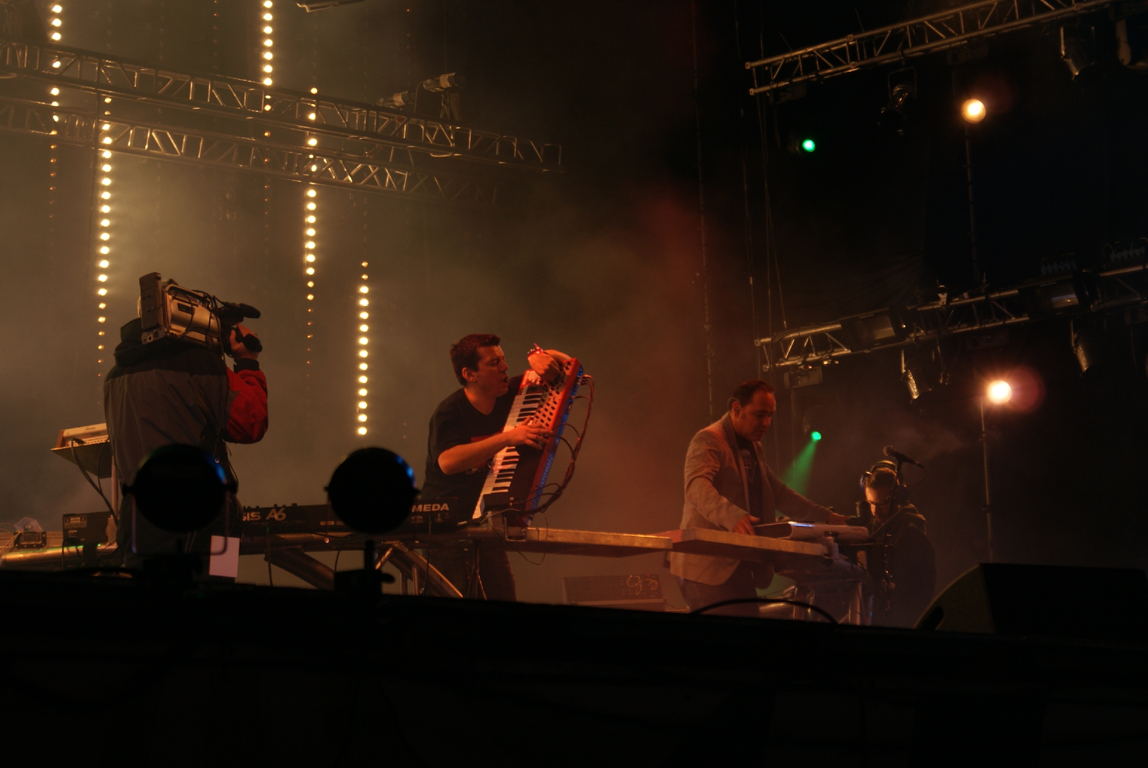 Orange Warsaw Festival 2009, Pl. Defilad, Warsaw, PolandThe Crystal Method